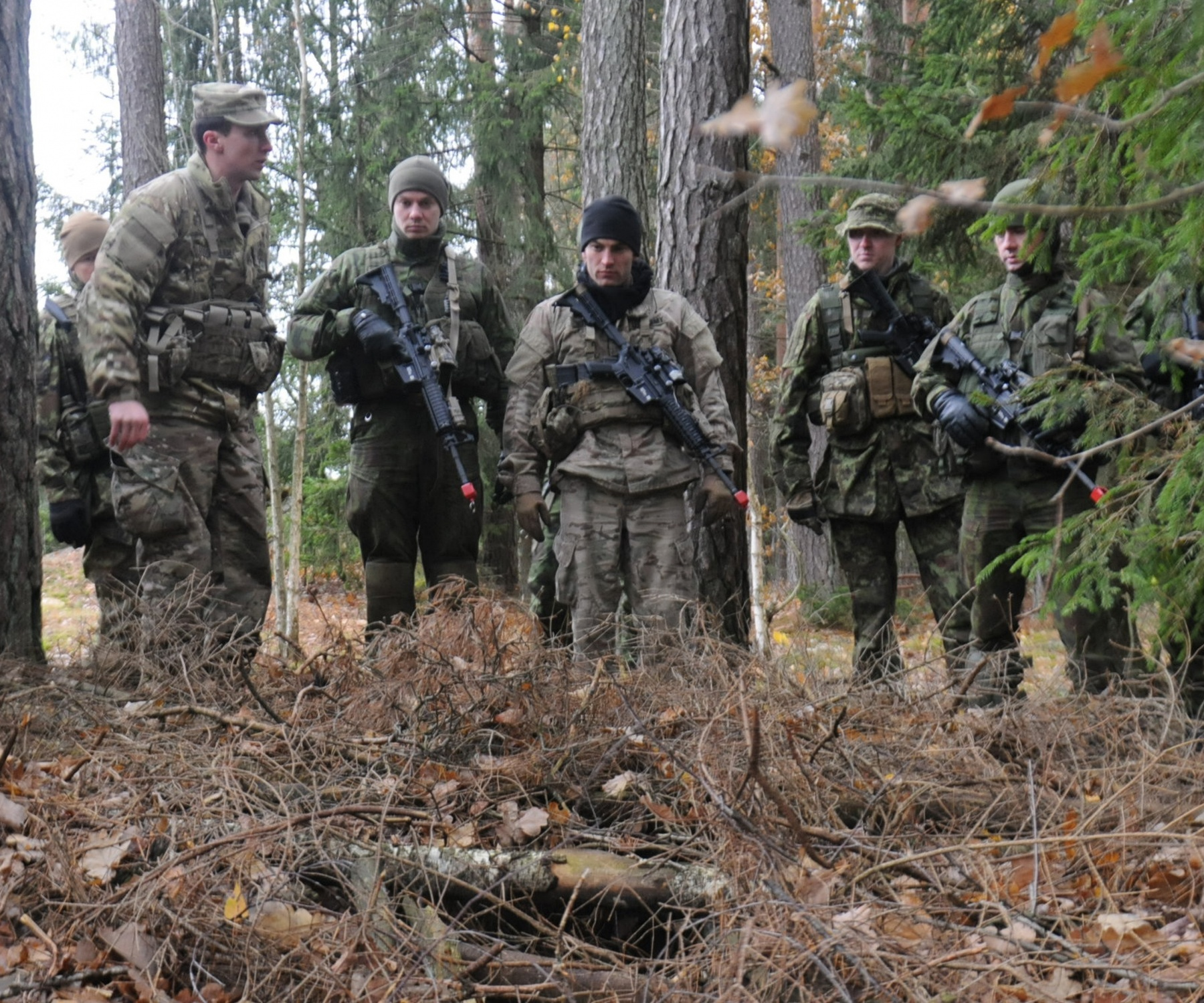 U.S. Army Reconnaissance and Surveillance Leaders Course students evaluate a subsurface hidesite during the course's first overseas training course in Lithuania